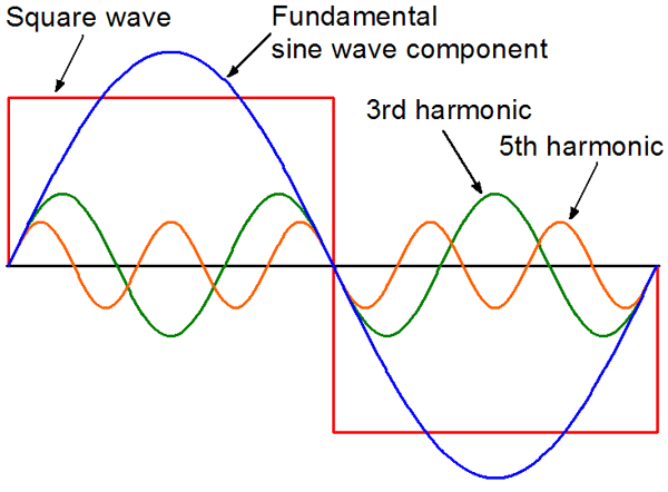 Square wave with fundamental sine wave component, 3rd harmonic and 5th harmonic (by C J Cowie using MS Excel,MicroGrafx Designer and Adobe Photoshop Elements)